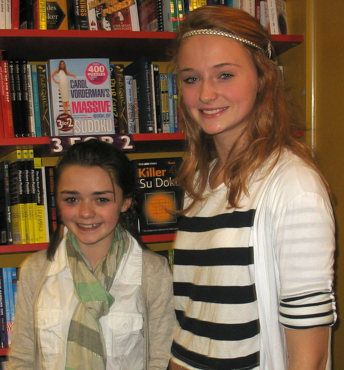 Maisie Williams (Arya Stark) and Sophie Turner (Sansa Stark) at the GRRM Easons Book signing Belfast 3rd Nov 2009, which was followed by an evening event called Moot 1 organised by the Brotherhood Without Banners (ASoIAF fandom)